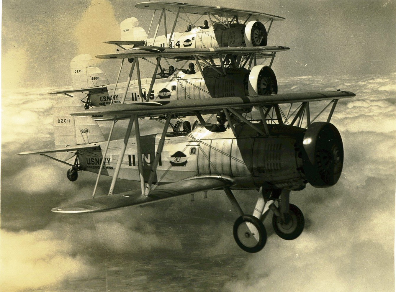 Curtiss F8C-5 (O2C-1) Formation. From the Avery R. Kier Collection (COLL/3871) at the Marine Corps Archives and Special Collections OFFICIAL USMC PHOTOGRAPH